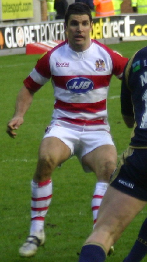 Trent Barrett